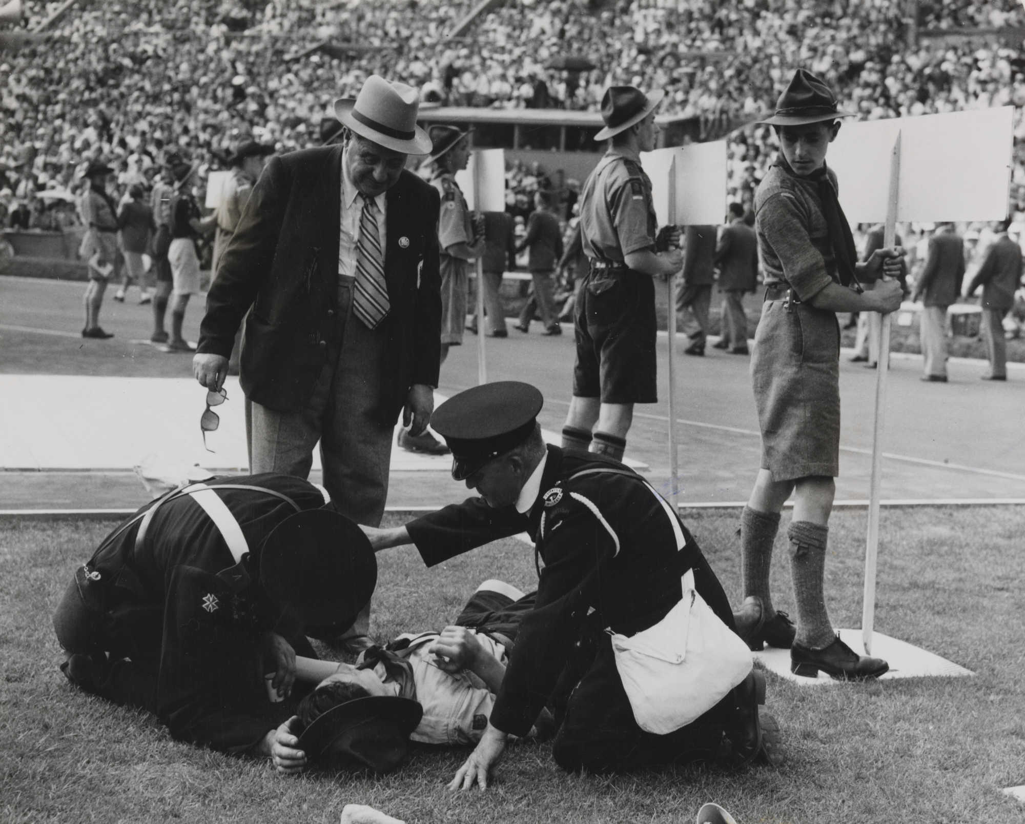 A Boy Scout who fainted in the intense heat was the first 'casualty' of the 1948 Olympic Games. The temperature was in the nineties as the sun blazed down mercilessly. Daily Herald Archive at the National Media Museum